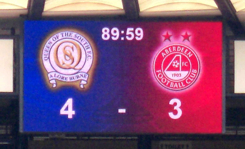 Semi final result on the scoreboard at Hampden Park during the Scottish FA Cup semi-final